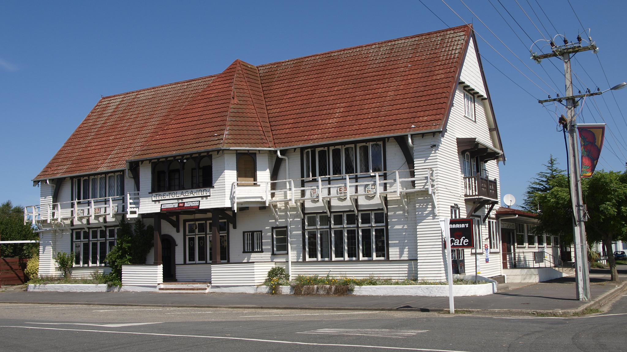 Tolaga Bay Inn (1890) but later changed, Tolaga Bay (village), Gisborne Region, New Zealand.